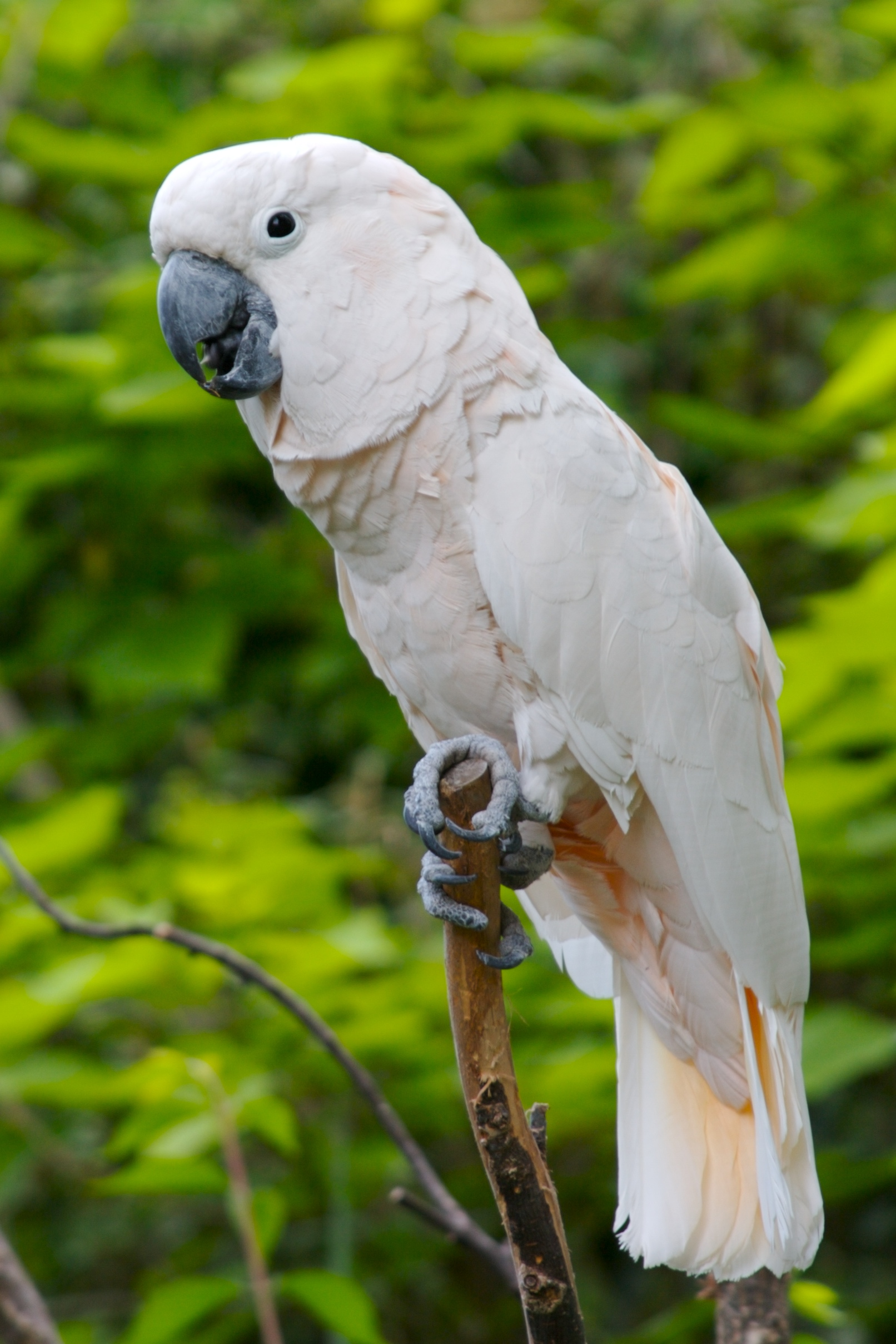 Moluccan Cockatoo, also known as Salmon-crested Cockatoo, at Cincinnati Zoo, USA.